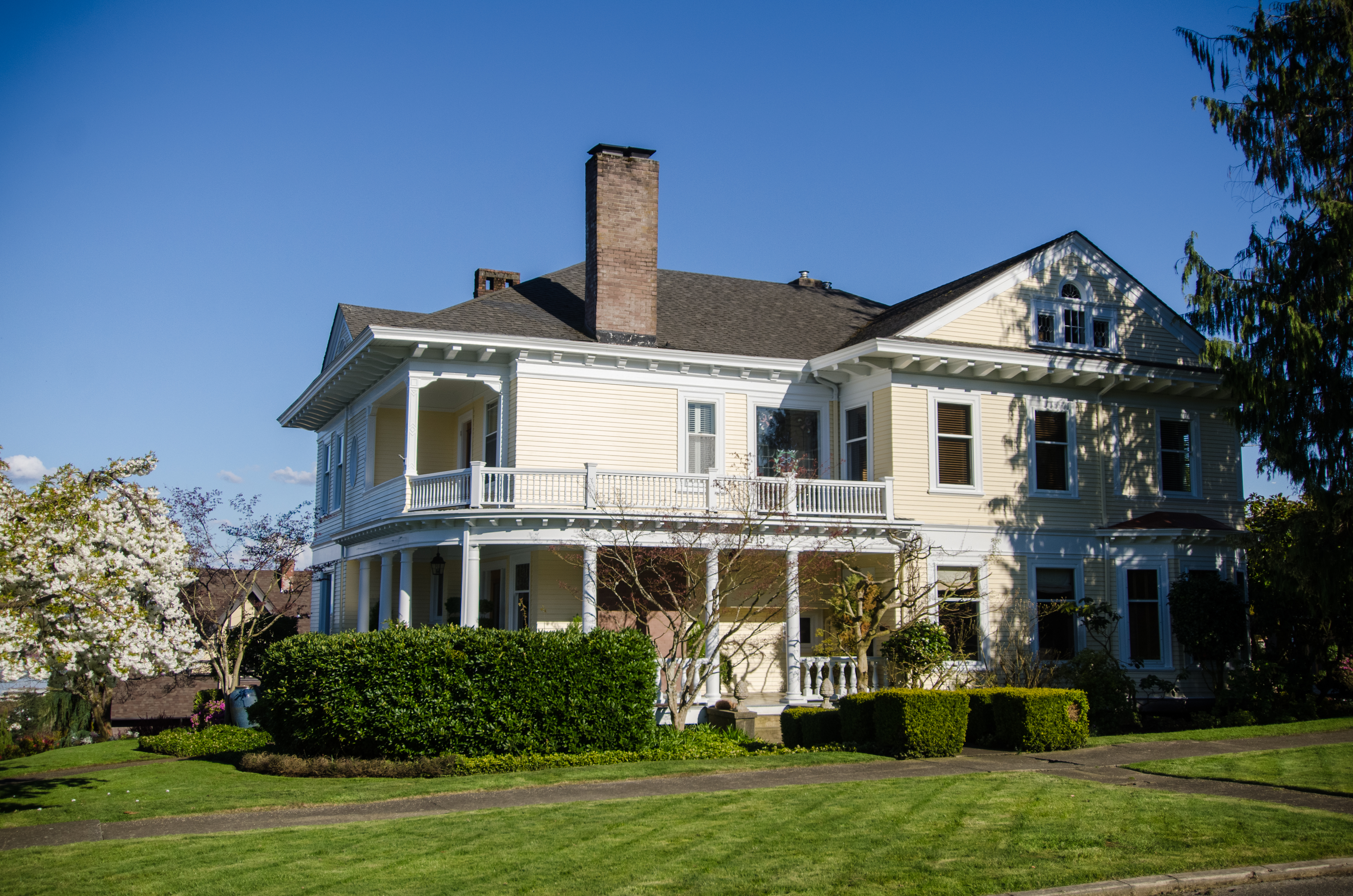 Seen in 10 Things I Hate About You.